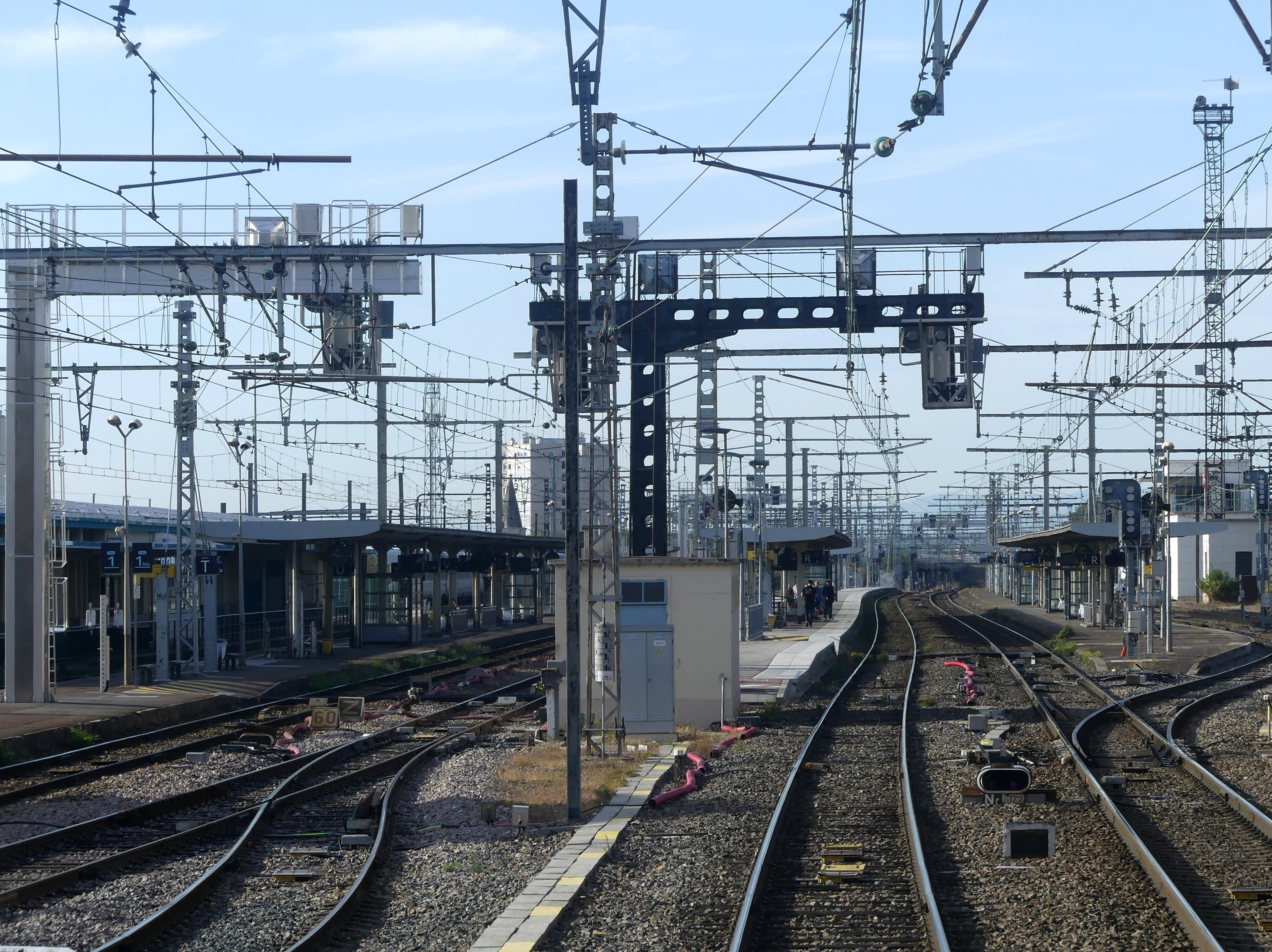 Sight of the arrival at Mâcon-Ville railway station, from the North (Paris and then Dijon) in the direction of Lyon and Marseille, in Saône-et-Loire, France.